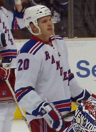 Fredrik Sjostrom @ Staples Center